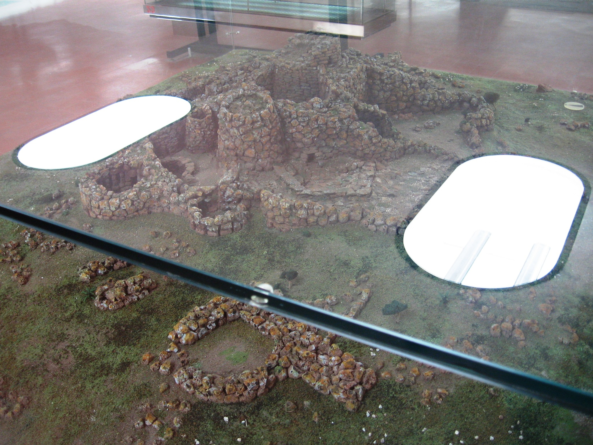 Reconstruction of Nuraghi village at Museo_Archeologico_Nazionale_G.A._Sanna SASSARI